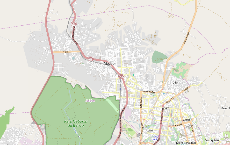 This map may be incomplete, and may contain errors. Don't rely solely on it for navigation.